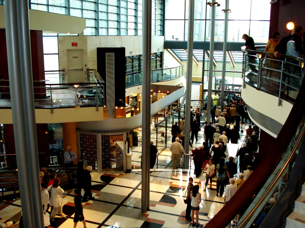 Toronto Centre for the Arts Lobby